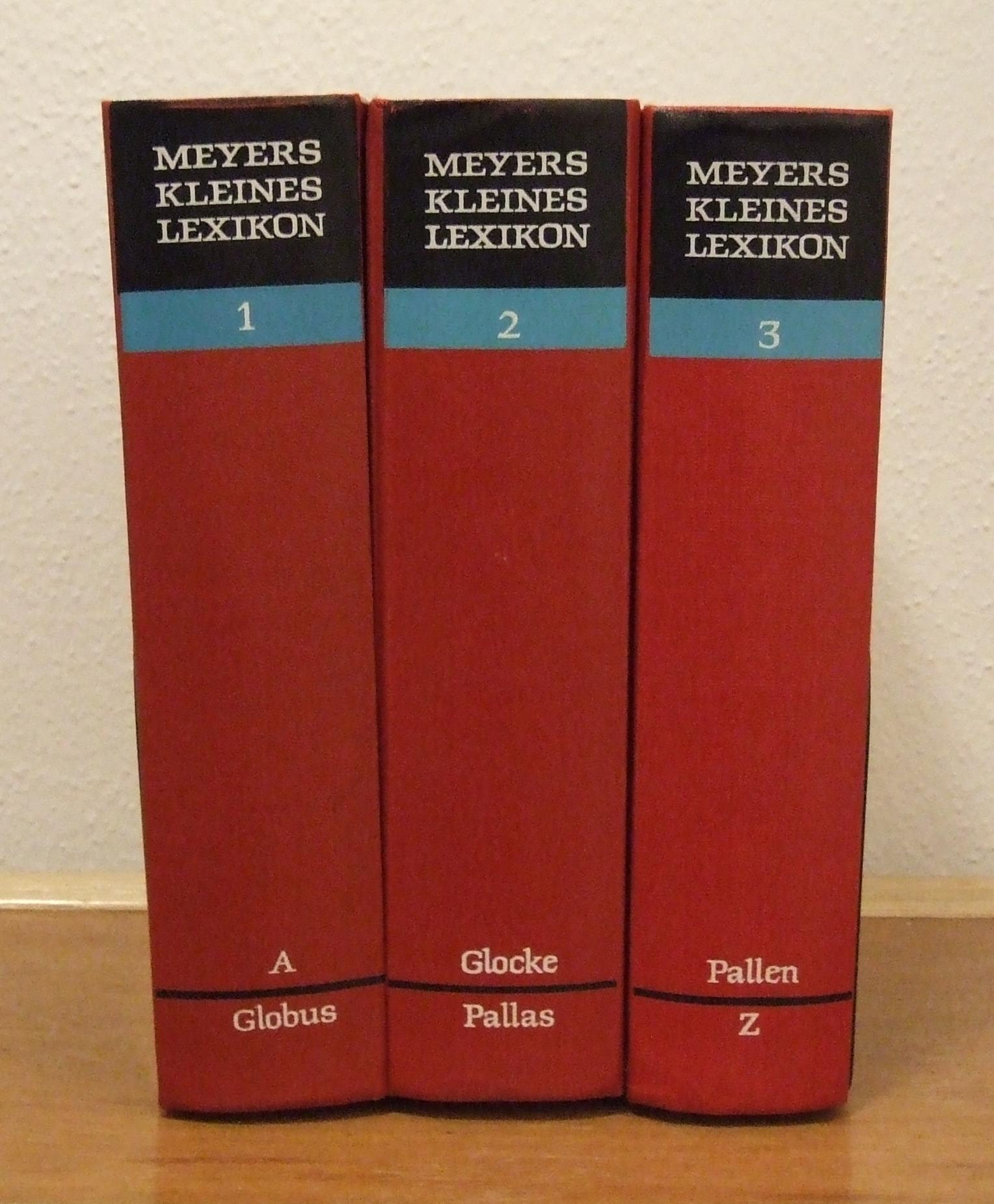 "Meyers Kleines Lexikon" in 3 volumes, by VEB Bibliographisches Institut, Leipzig, 1970.